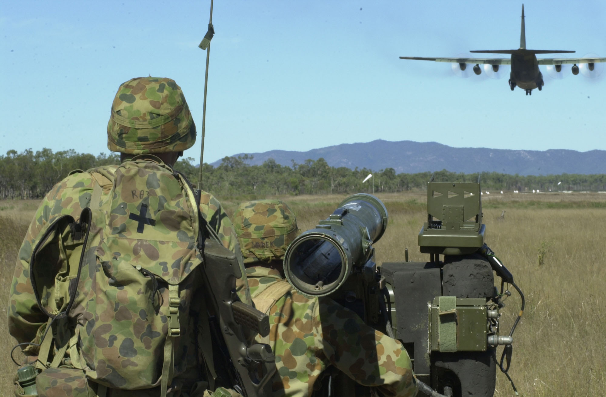 SHOALWATER BAY TRAINING AREA, Australia, May 21, 2001 - Bombardier, Cpl. Chris Freeman (left) and Gunner Pvt. Marek Michaoski, from the Royal Australian Army, provide air protection using a Robotic System 70 Air Defense System and Target Data Receiver at Williamson Air Field. U.S. Army photo by Spc. Eric Hughes.